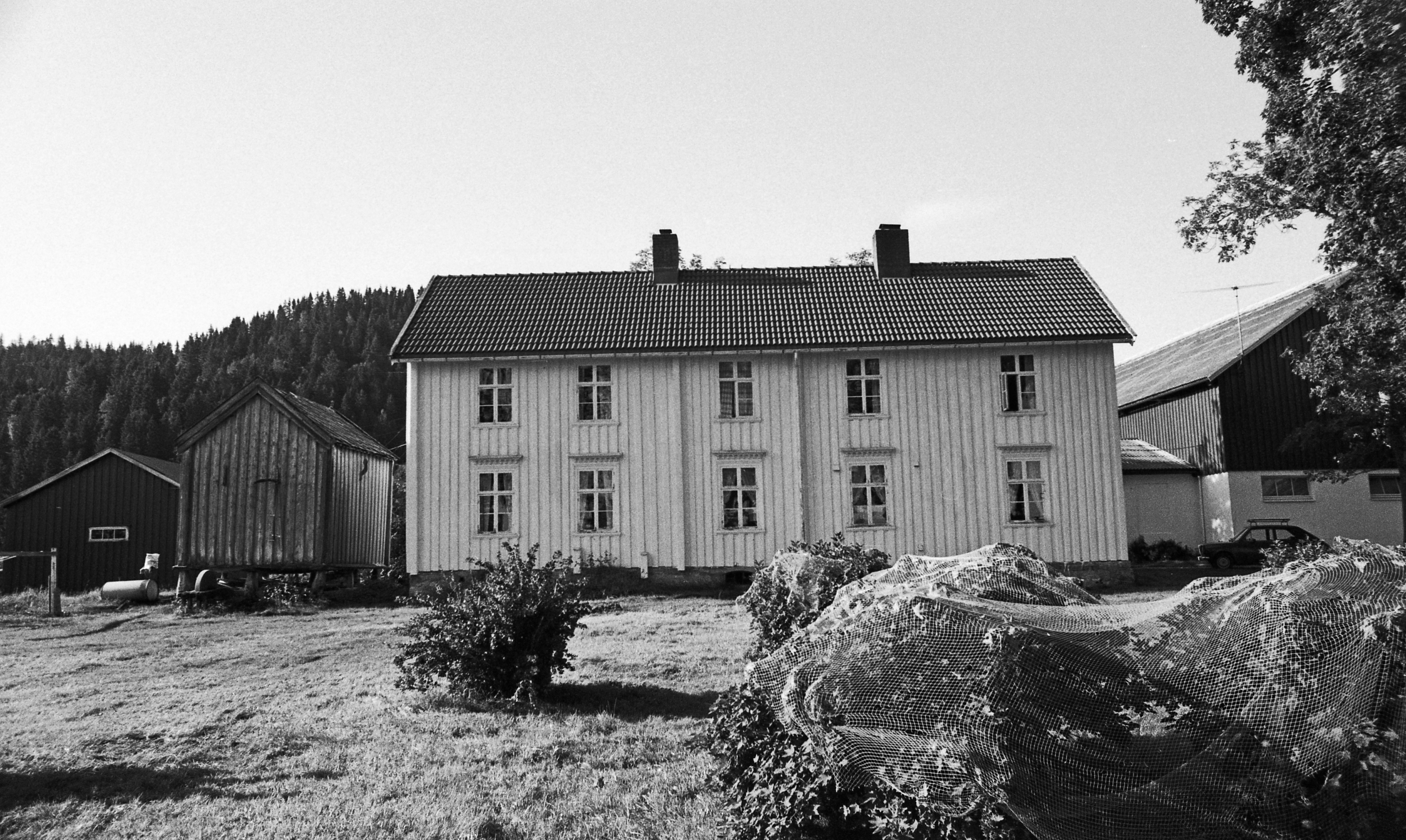 Format: 35 mm svart/hvitt negativ Film: Kodak Safety Film 5063 Dato / Date: antakelig sommeren 1980 Fotograf / Photographer: Ukjent Sted / Place: Reppe Søndre, Strinda Øst Eier / Owner Institution: Trondheim byarkiv, The Municipal Archives of Trondheim Arkivreferanse / Archive reference: Tor.H43.P1.F5380, film 20 Merknad: Fra Byantikvarens negativsamling.